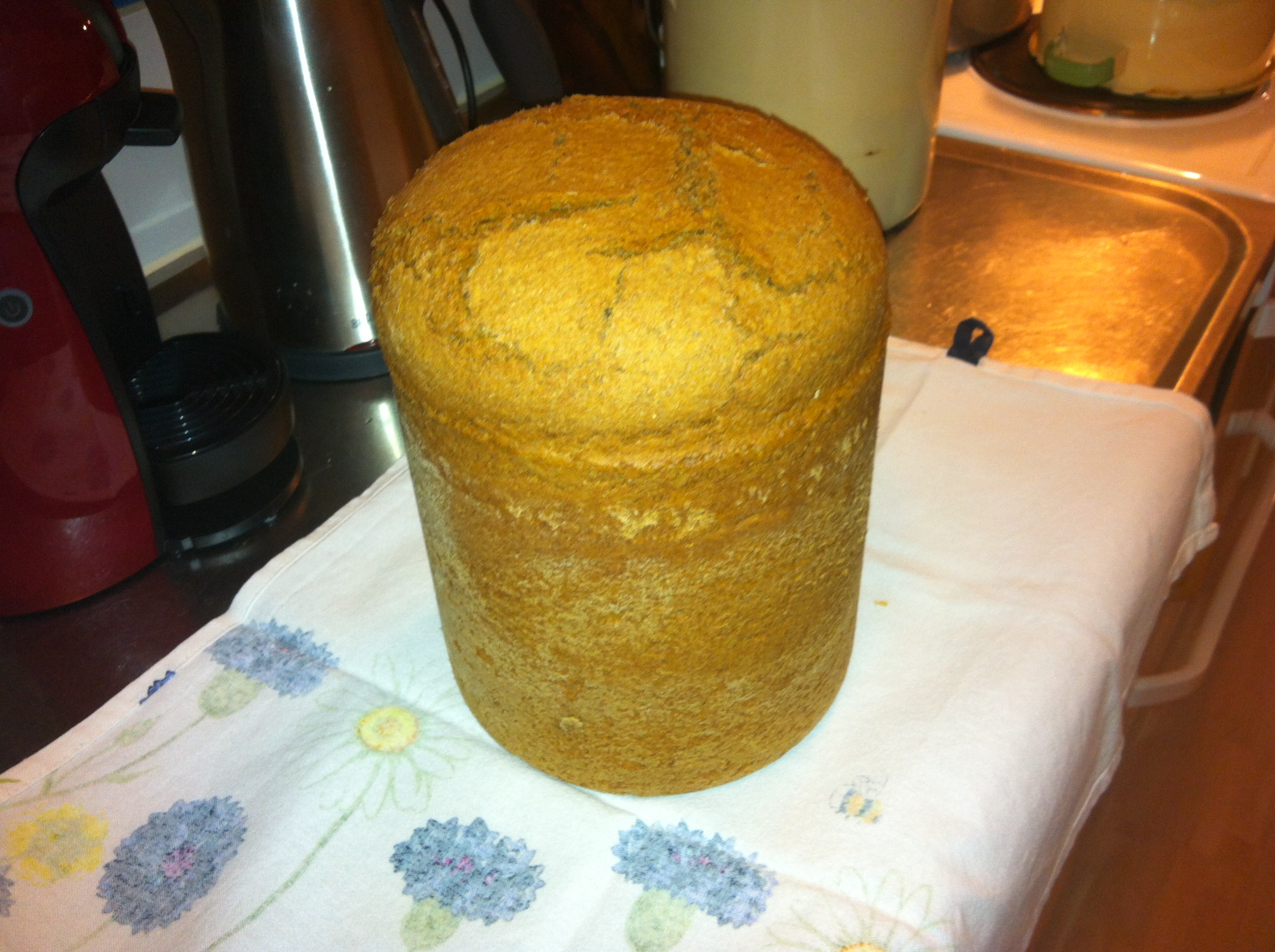 A unique, boiled breadloaf from Uppland, a province of Sweden